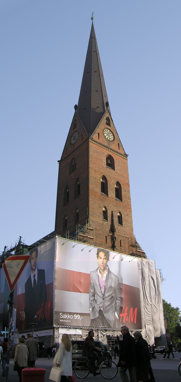 The church of St. Petri in the city of Hamburg. The restauration of the church is financed through the huge H&M-Posters at the facade. This is a photograph of an architectural monument.